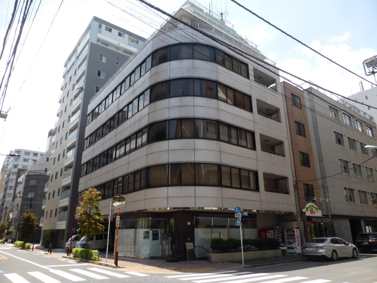 Seiko Building hosts several tenants which include the Embassy of Samoa in Tokyo, Japan.